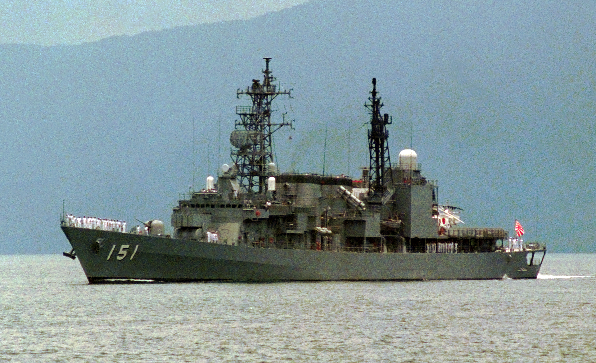 A port bow view of the Japanese destroyer JDS Asagiri (DD-151) underway in Subic Bay.